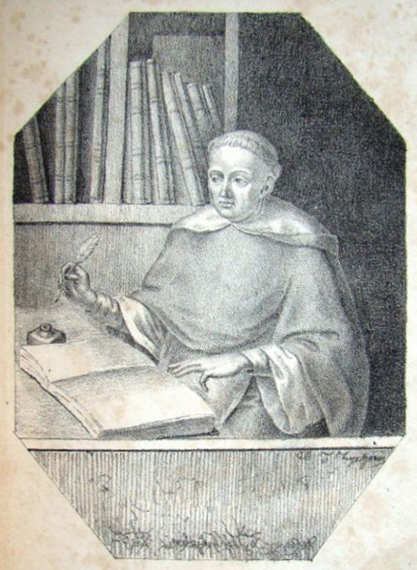 Depiction of the Polish-Lithuanian historian, theologian, and specialist in heraldry Szymon Okolski (1580–1653), member and superior of the Dominican Order in Kamianets-Podilskyi. Author of many Latin and Polish works including the armorial encyclopedia of the Polish nobility "Orbis Polonus" (1641–1643) in three volumes.